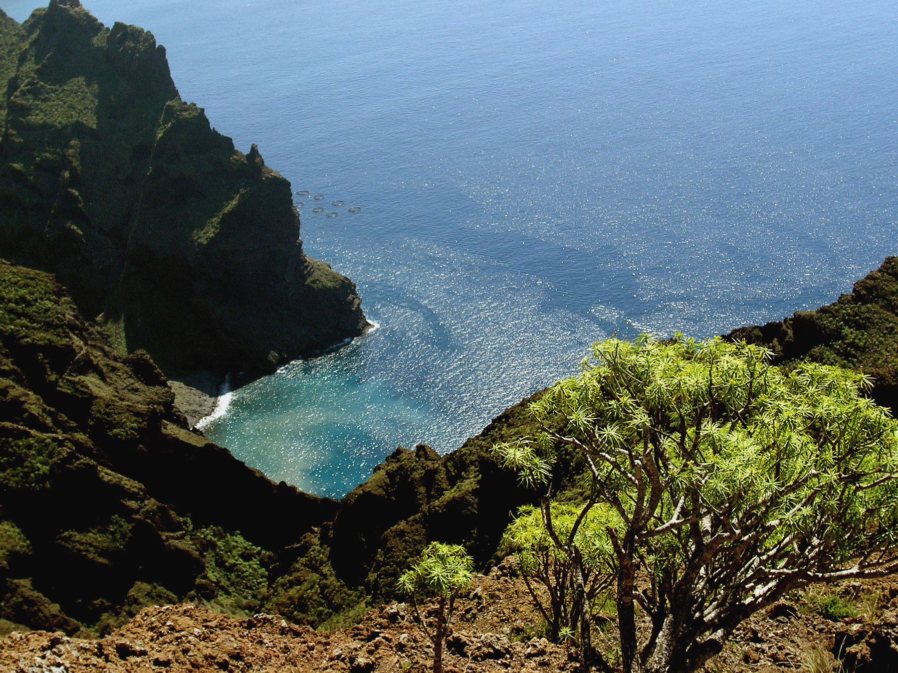 Bay near Masca, Tenerife